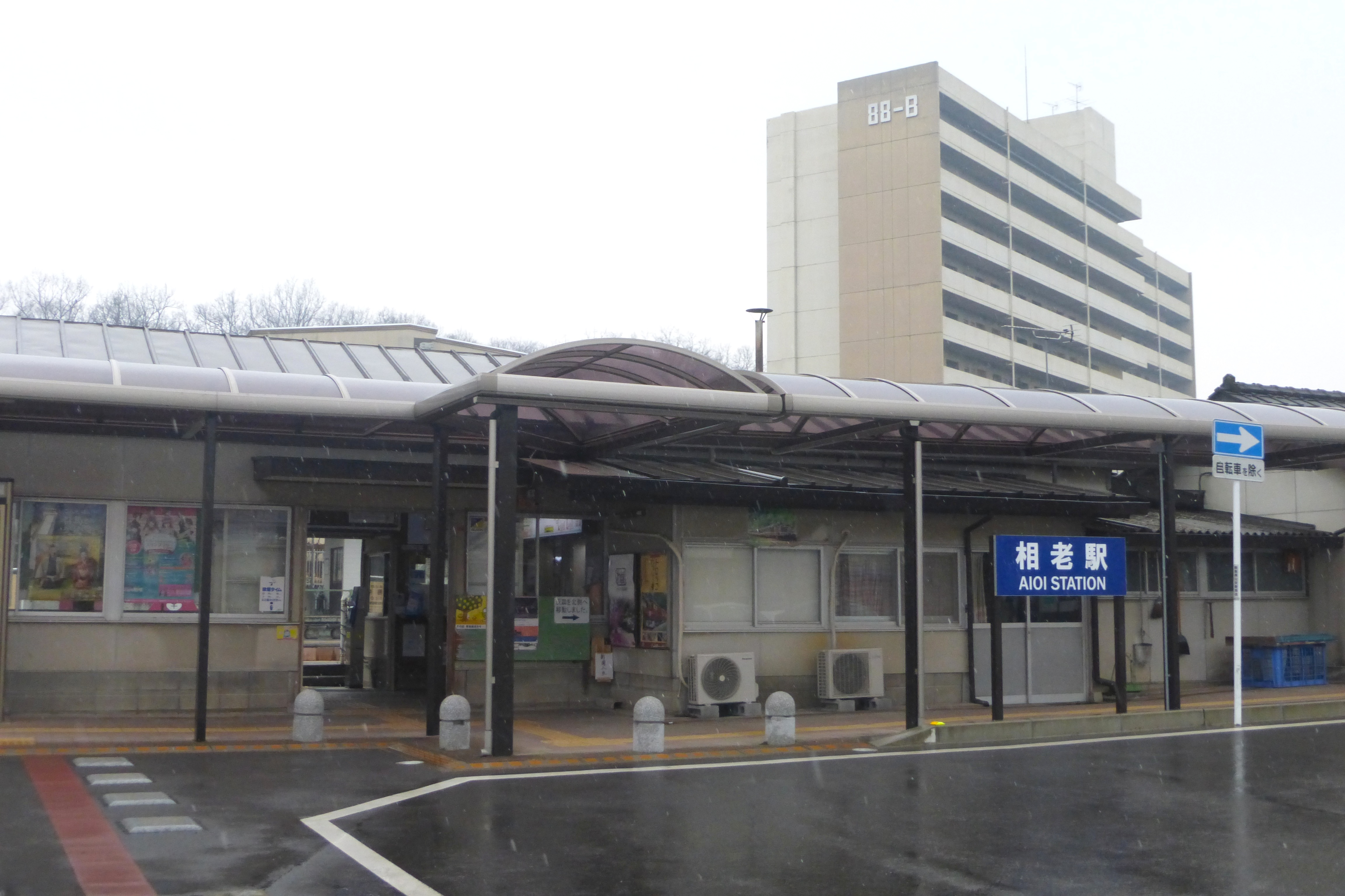 Aioi Station on the Tobu Kiryu Line